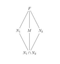 illustration for Haran's diamond theorem, created in LaTeX usig diagrams package